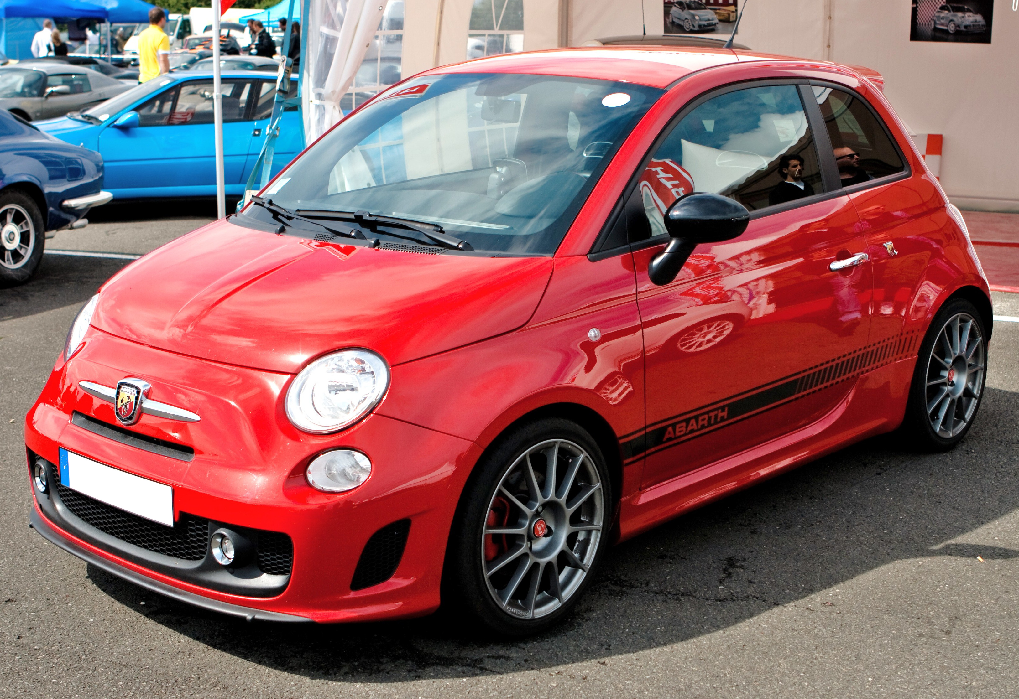 Abarth 500